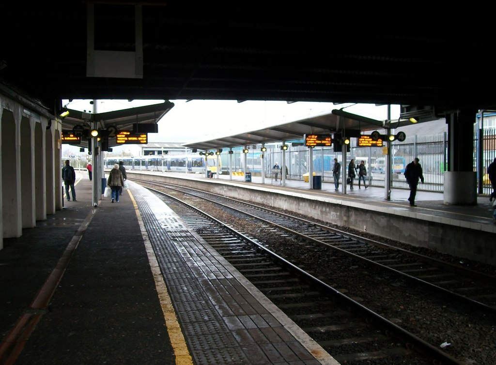 Great Victoria Street Station, Belfast. This serves the city centre. Trains run from here on the Bangor, Larne, Londonderry and Newry lines. Cross border trains operate from Central Station with which Gt Victoria Street Station has a direct link.... more